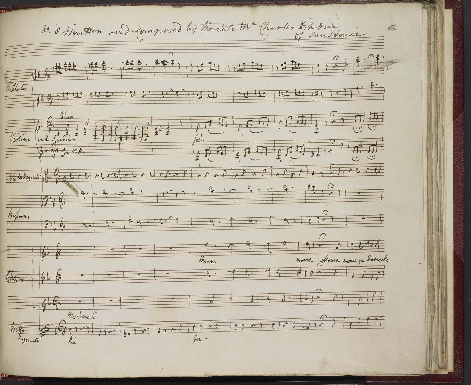 Mourn ye damsels of the court. In the composer's hand.